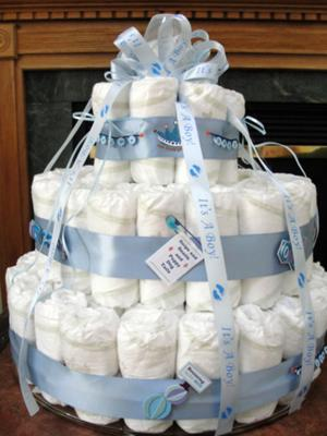 Baby diaper cake. Complete with ribbon and bow on top